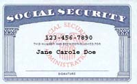 2015 Social Security card featuring name Jane Carole Doe